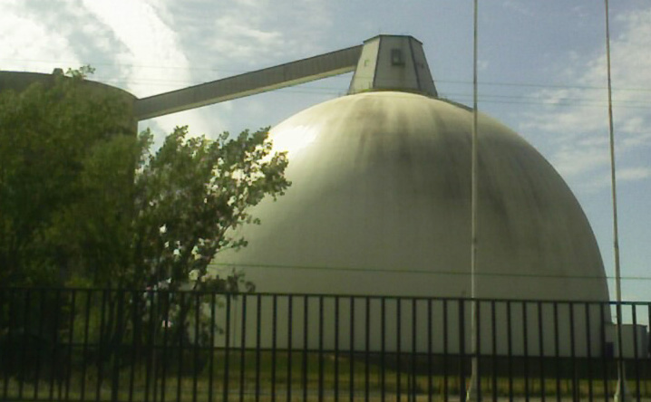 This is a cropped version of the following Commons image: "Is a storage Bunker Silo of Sugar in Chile (Iansa)."